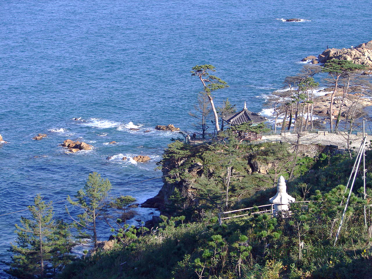 Looking down along the shoreline above Uisangdae at Naksansa, nestled into the side of Naksan Mountain along the East Sea, not far from Sokcho South Korea